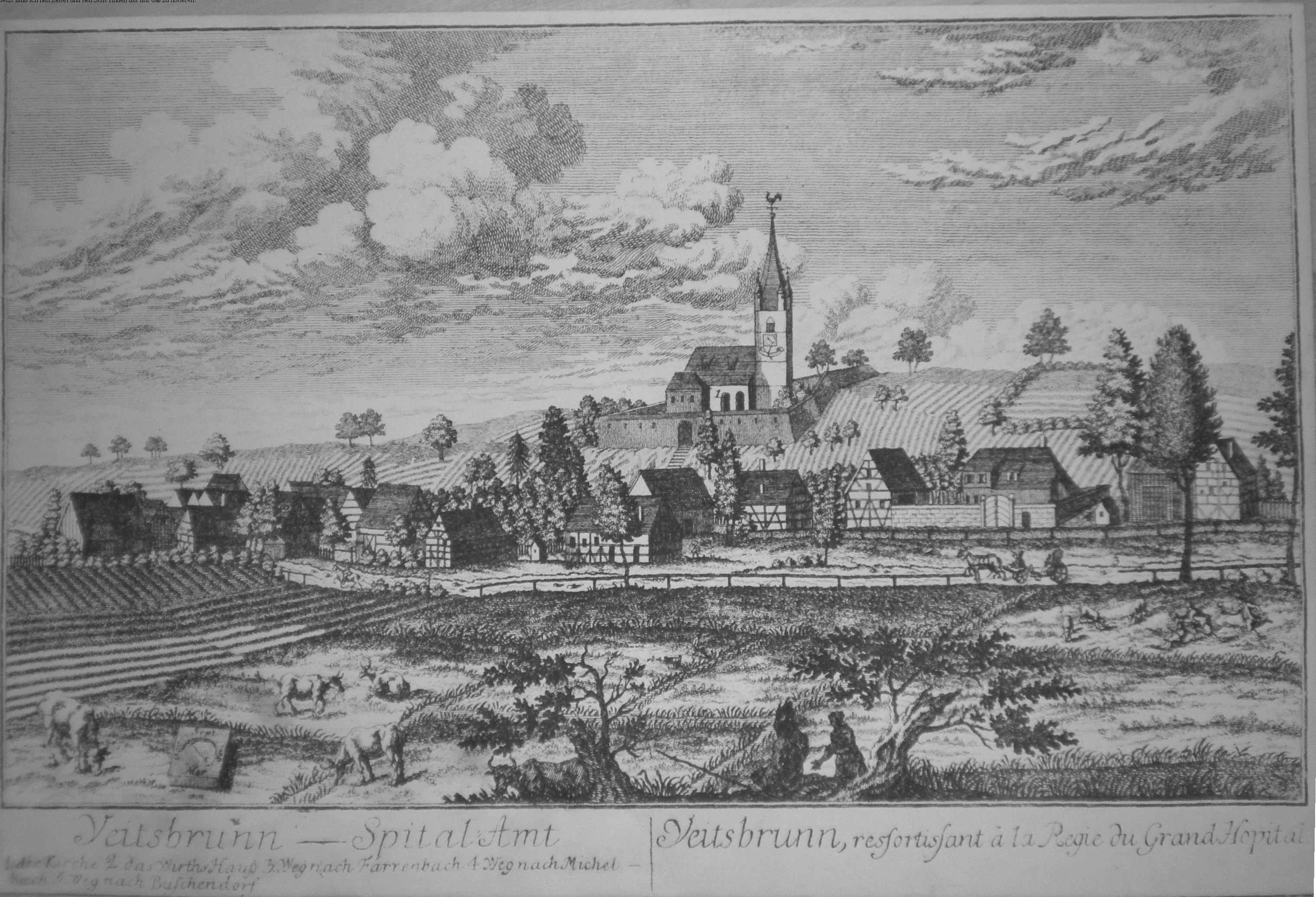 Ancient view of Veitsbronn